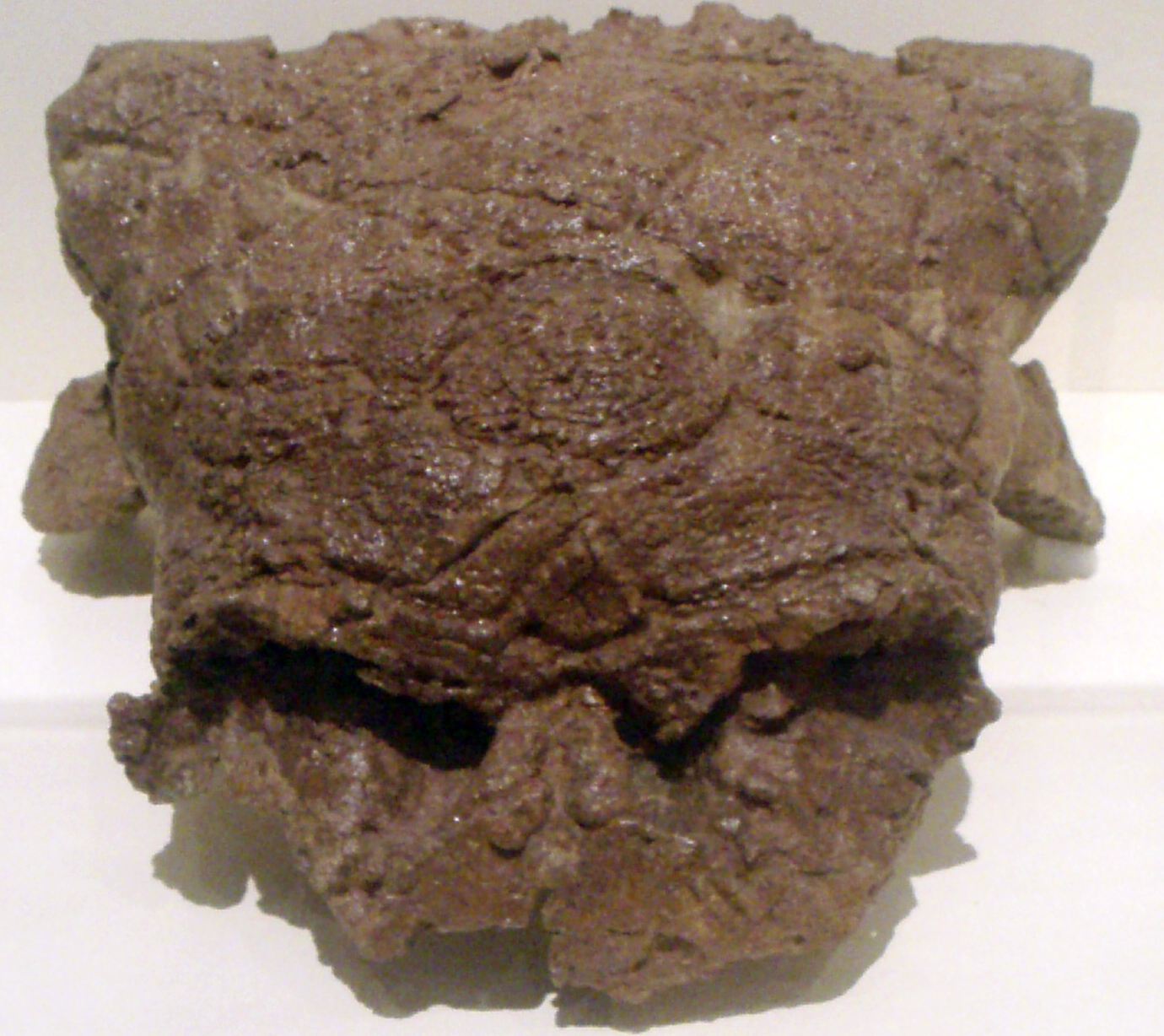 Partial skull of an Euoplocephalus tutus, on display at the Royal Ontario Museum, Toronto.